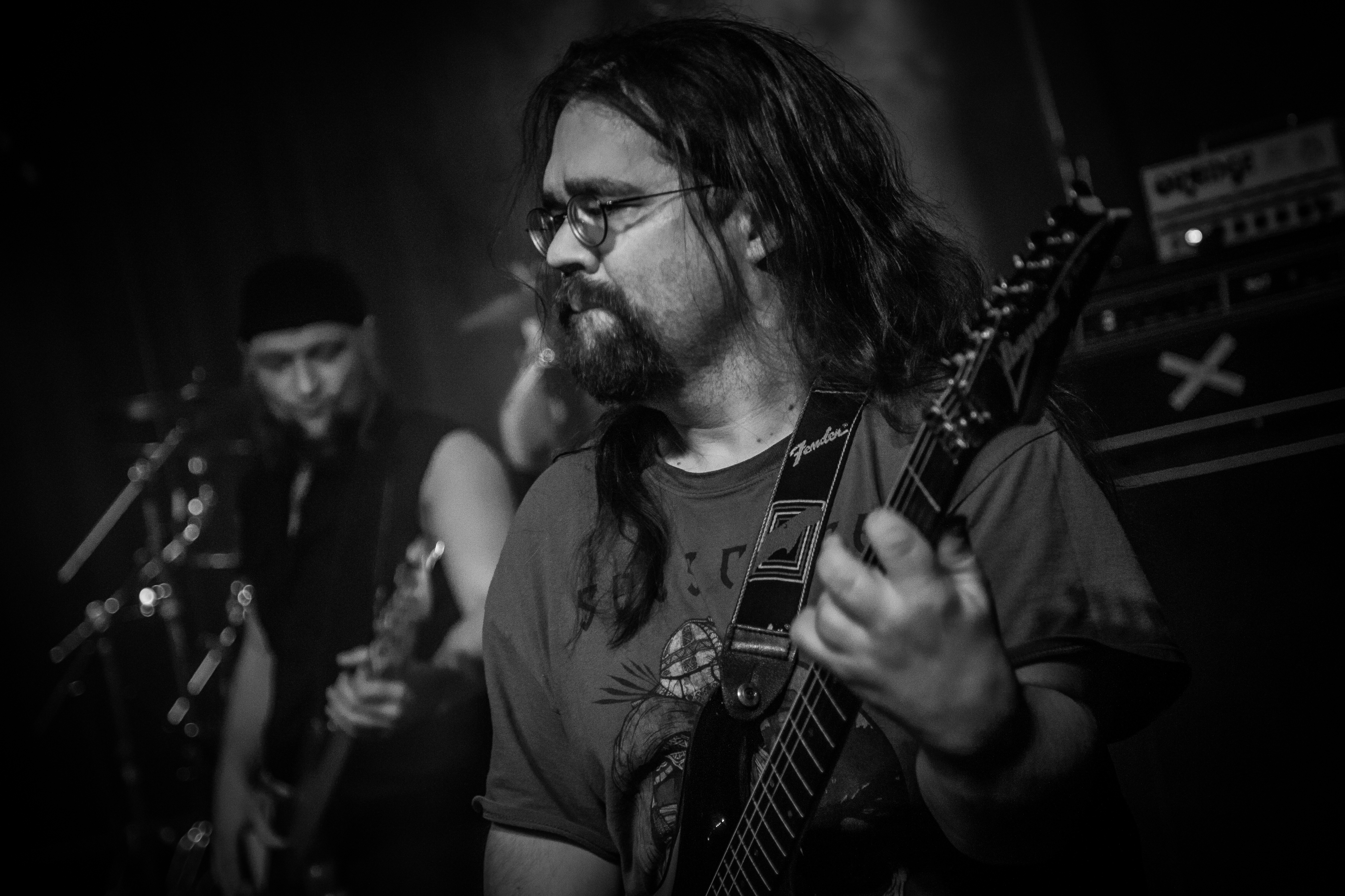 Atlantean Kodex live at Hell over Hammaburg Festival, Hamburg, 2018